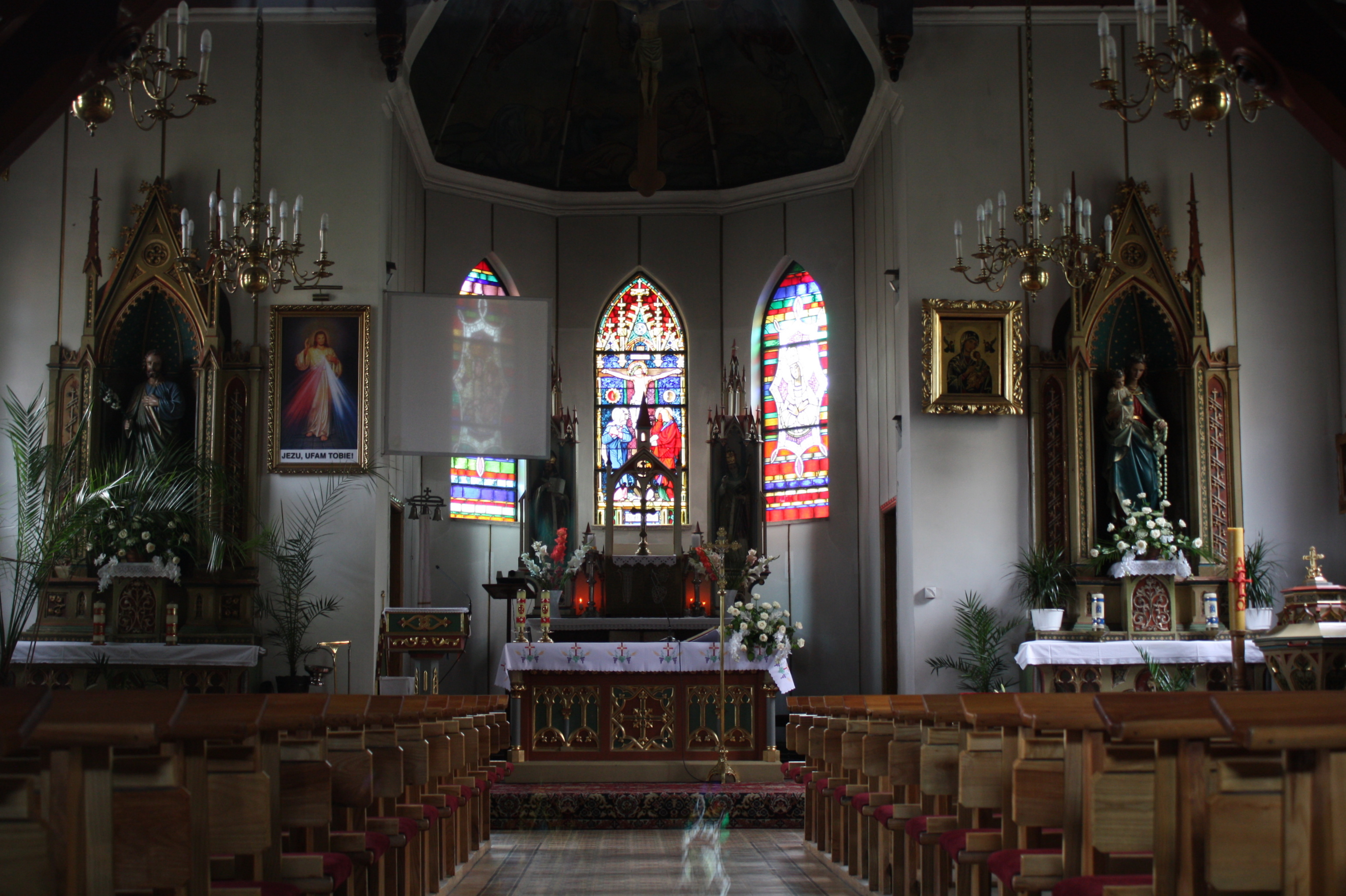 This photo of Warmian-Masurian Voivodeship was taken during Wikiexpedition 2012 set up by Wikimedia Polska Association. You can see all photographs in category Wikiekspedycja 2012. The making of this document was supported by Wikimedia Polska.